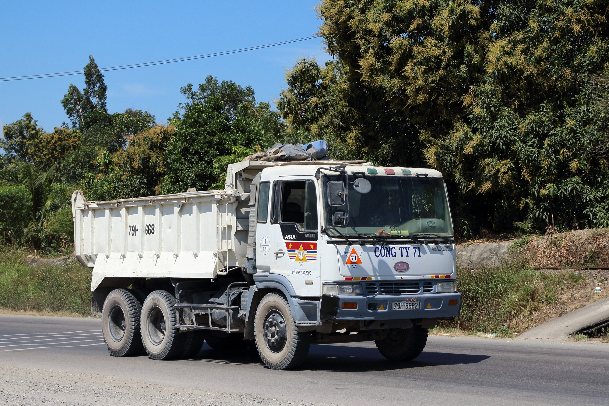 Asia Granto dump truck in Vietnam